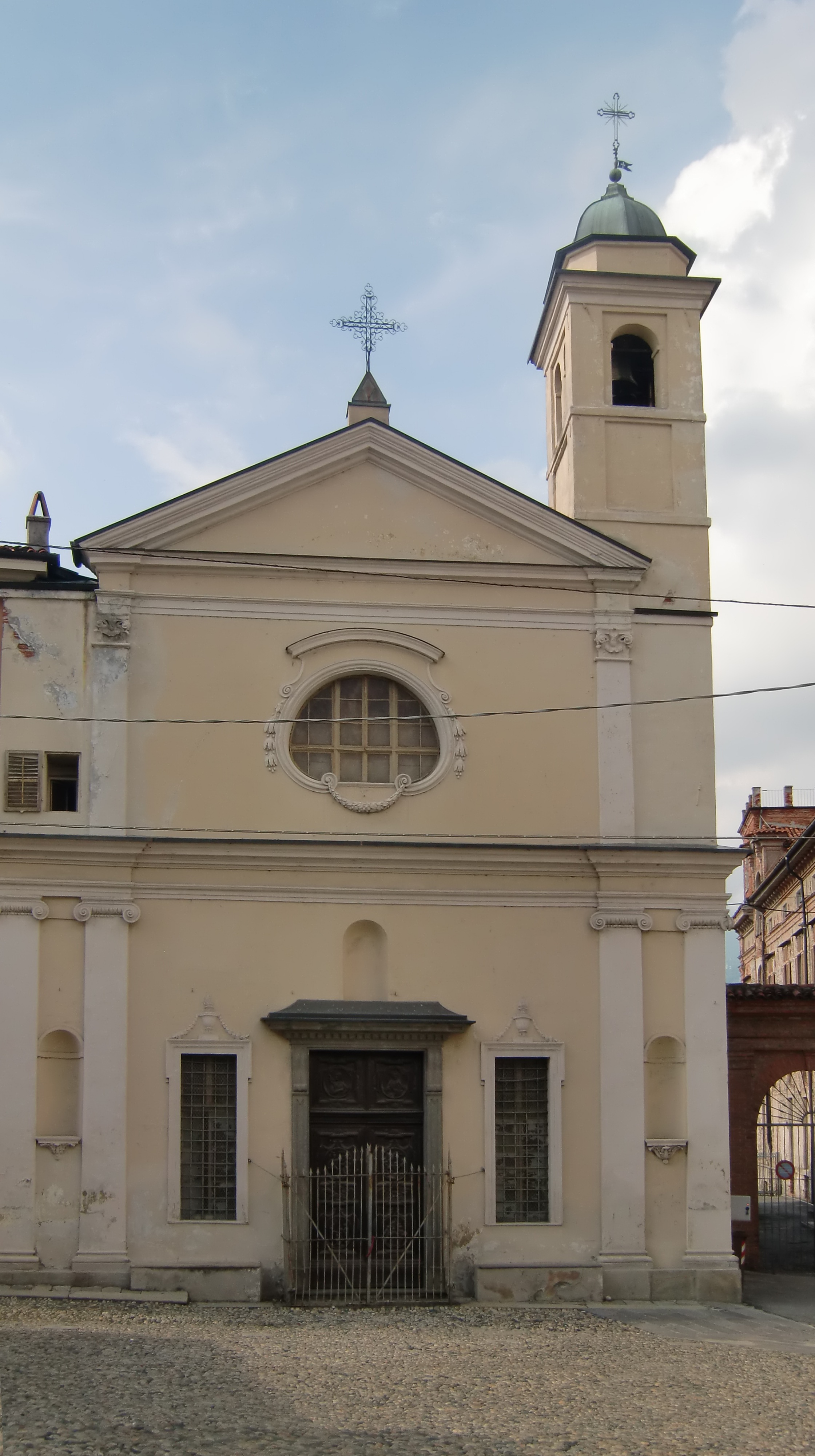 Chiesa di San Nicola da Tolentino, 1605, Ivrea, Italy